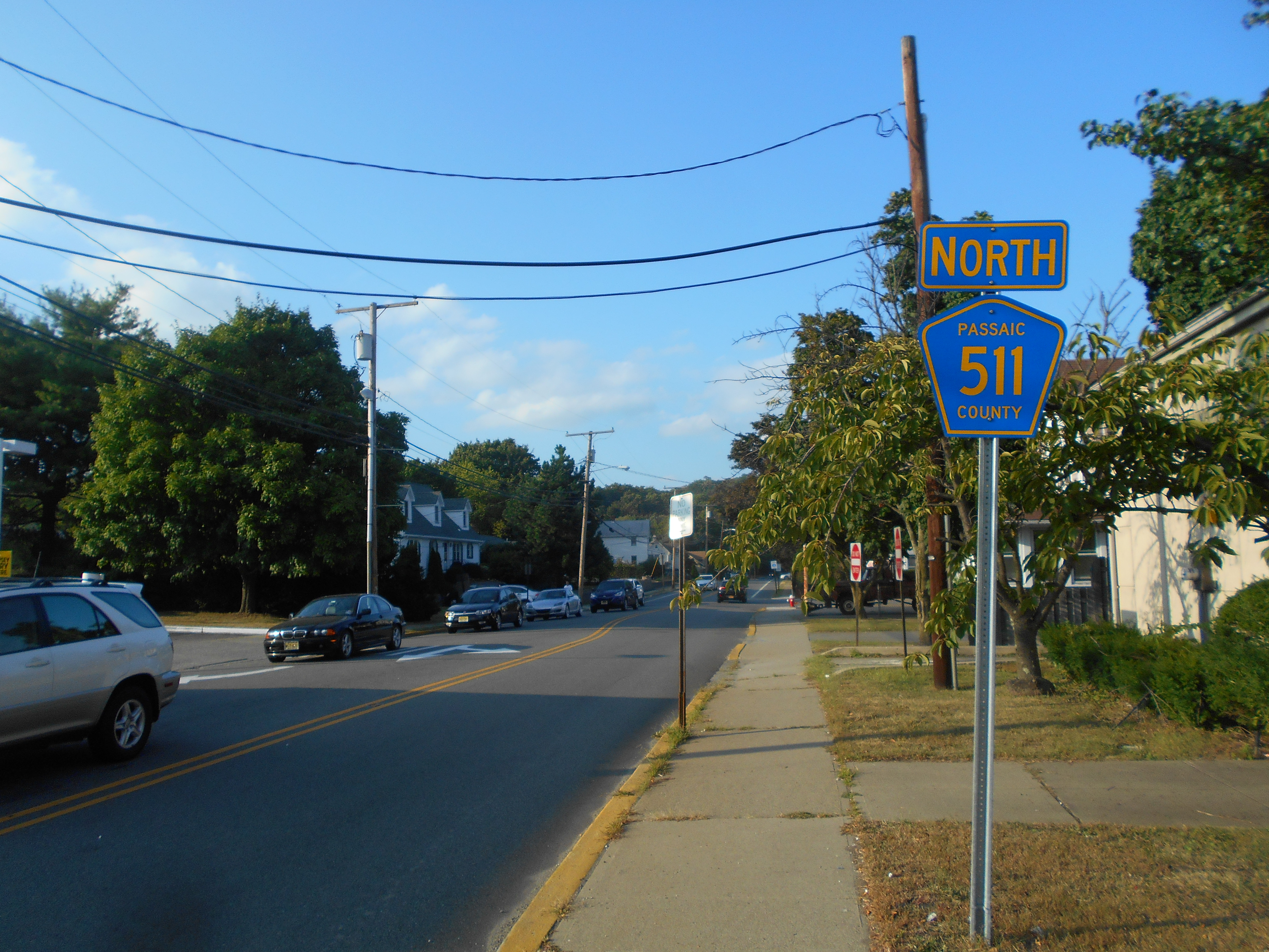 County Route 511 northbound in Bloomingdale, New Jersey.